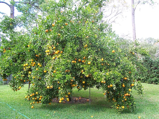 A Ponkan tree in Florida.